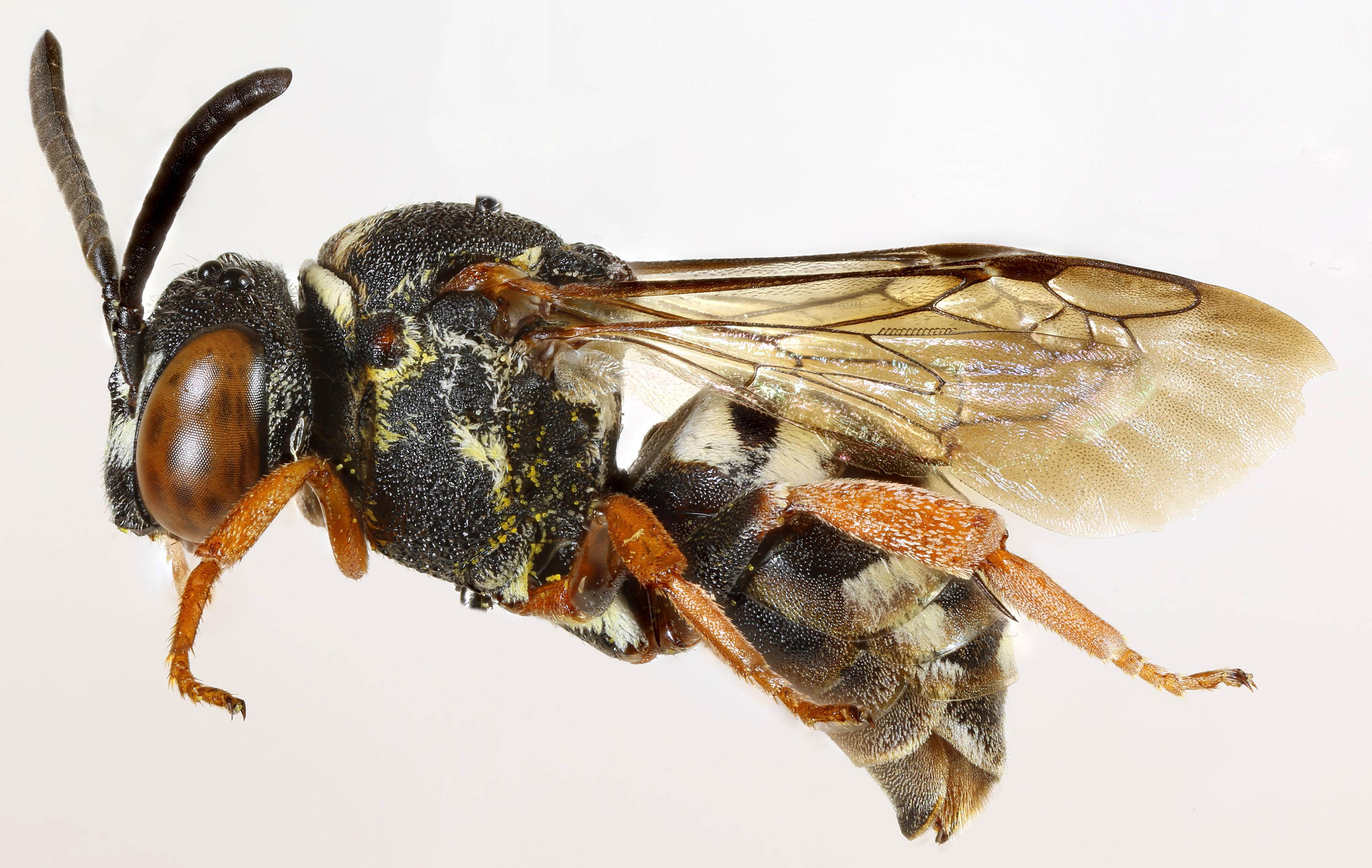 Epeolus variegatus female, Dyffryn, North Wales, 2016